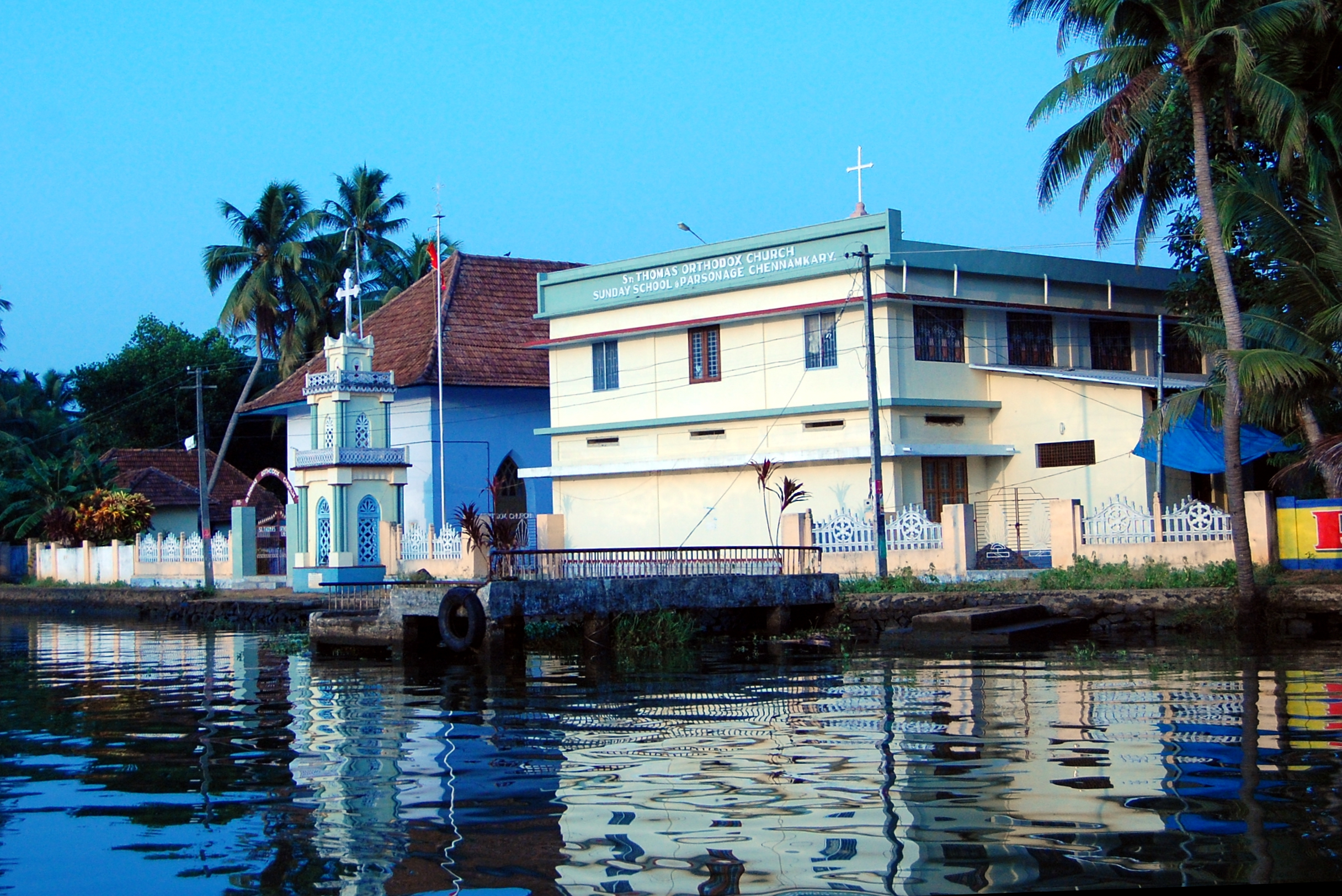 St. Thomas Orthodox church, its sunday school and its jetty at Chennamkary, Alappuzha, Kerala